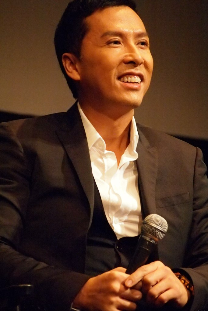 Donnie Yen @ New York Asian Film Festival 2012 - 28